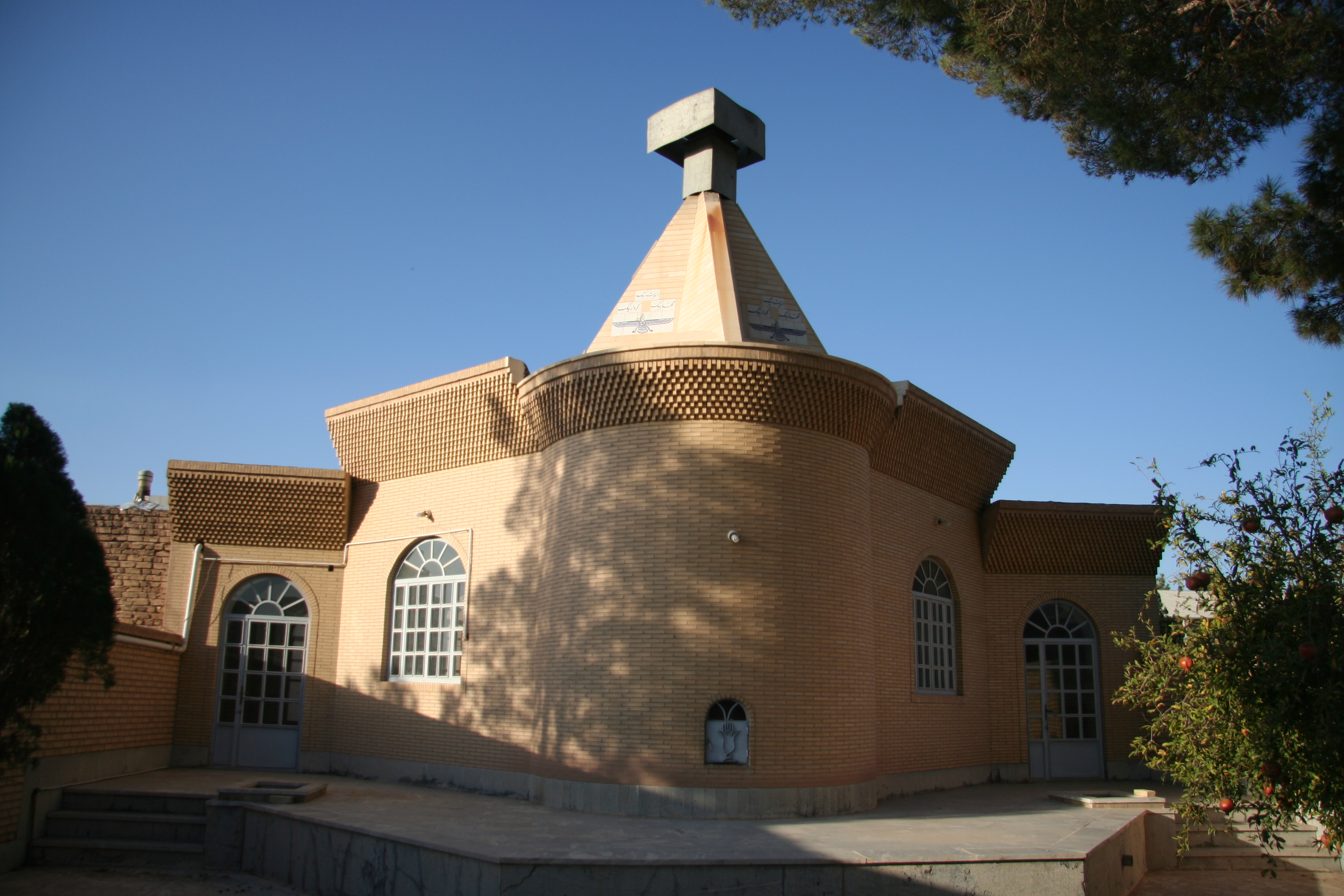 Zoroastrian temple in Mazra Kalantar